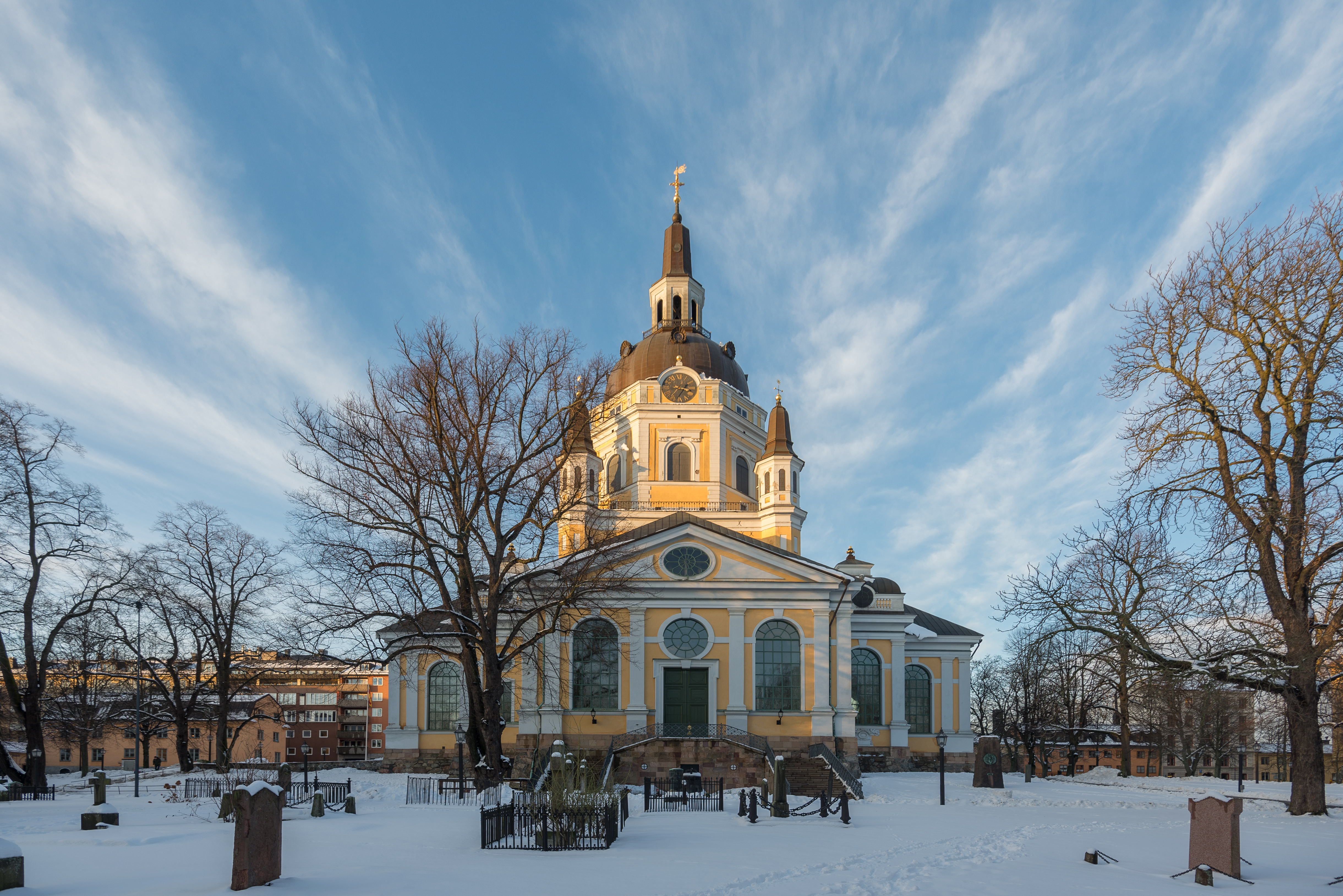 Katarina kyrka (church). Södermalm, Stockholm.